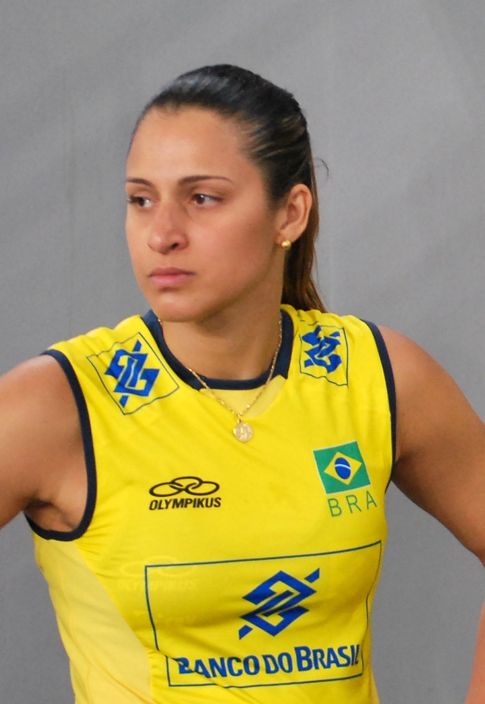 Dani Lins, volleyball player from Brazil